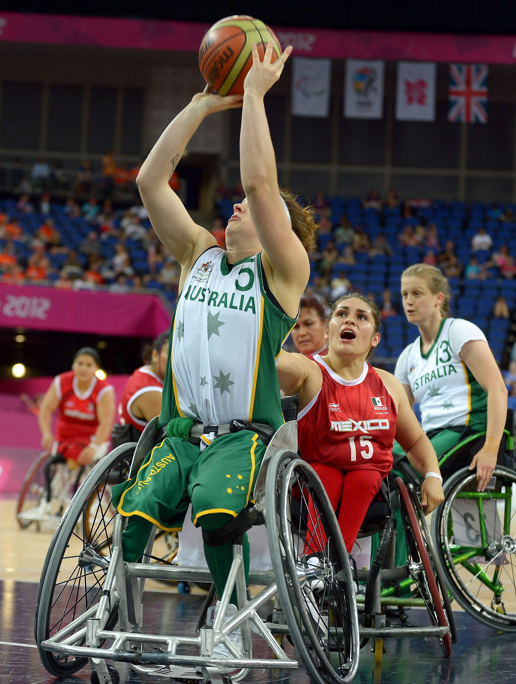 Photograph of Australian Paralympic team member Cobi Crispin at the 2012 Summer Paralympic Games in London